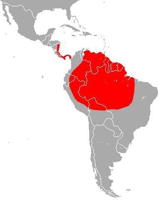 Chestnut Sac-Winged Bat (Cormura brevirostris) range